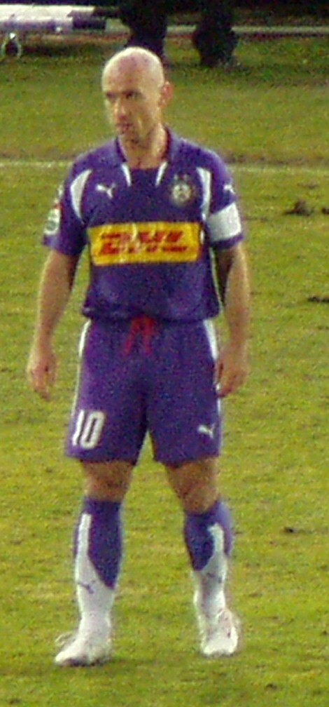 Zoltán Kovács (b. 1973) Hungarian football player. ZTE Arena.